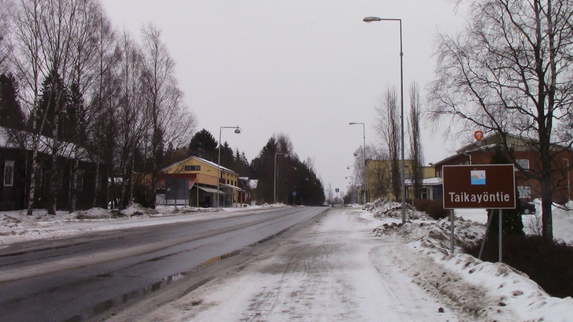 Finnish regional road 230 at Punkalaidun, Finland. The road runs from Urjala to Huittinen.